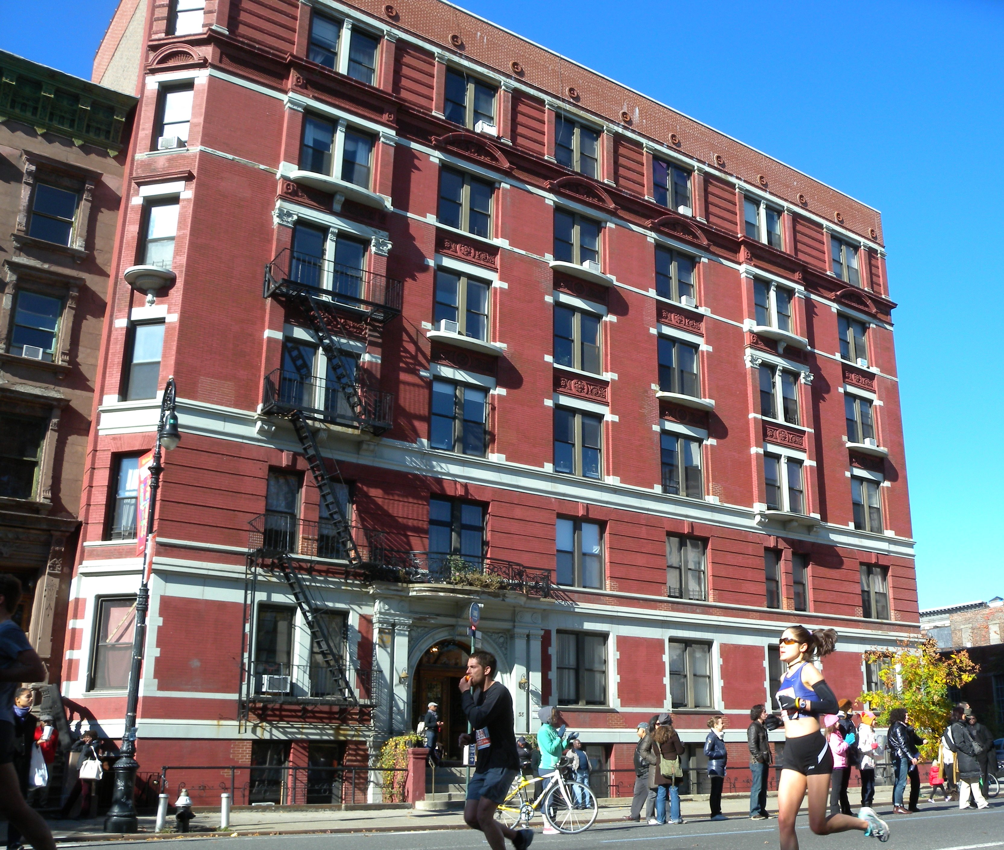 Looking north across Mt Morris Park West towards 126th Street as NYC Marathon runners pass a lovely old apartment house on a sunny midday. EXIF time is off by an hour due to clock being still on Daylight savings.